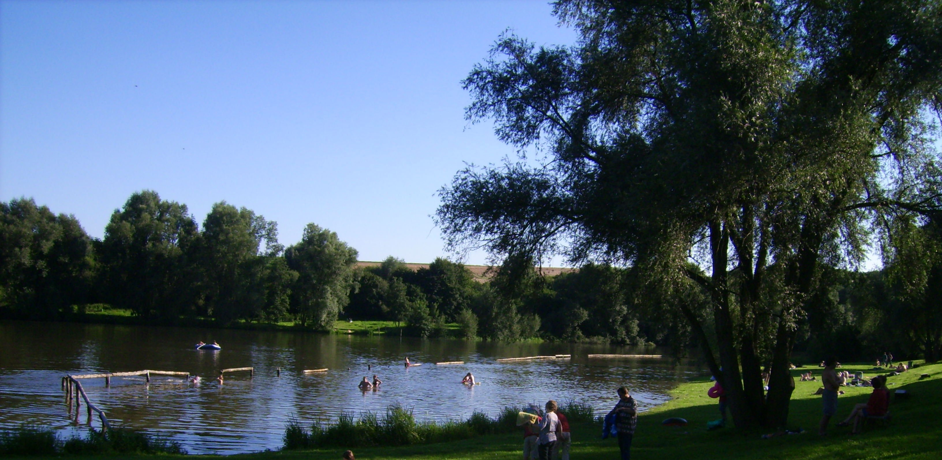 Photo of the reservoir Wendebachstausee in the municipal district Niedernjesa of the municipality Friedland in district Göttingen, Lower Saxony, Germany. Bathers have gone into the water or lie on the meadow.